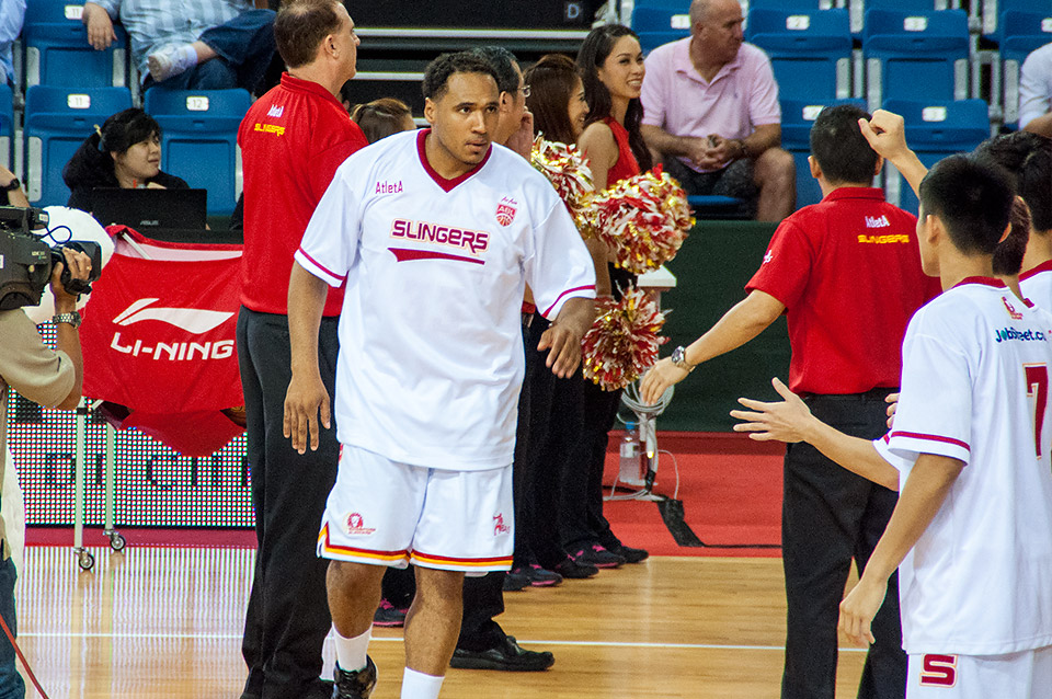 Dior Lowhorn making his first appearance for the Singapore Slingers in their match against the Indonesia Warriors at the OCBC Arena on 22 August 2014.